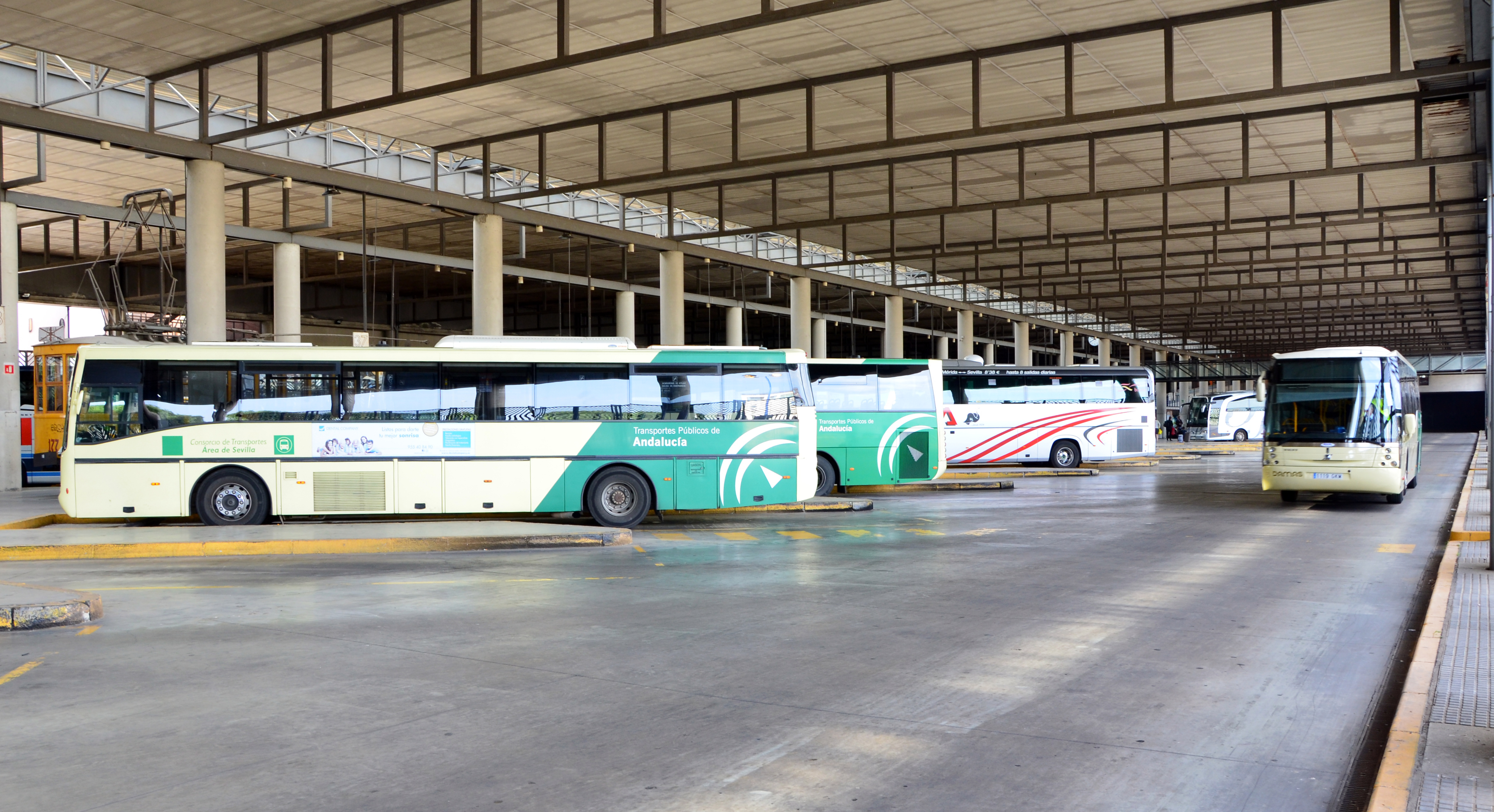 Embarkation/disembarkation zone, Plaza de Armas bus station (Seville, Spain).